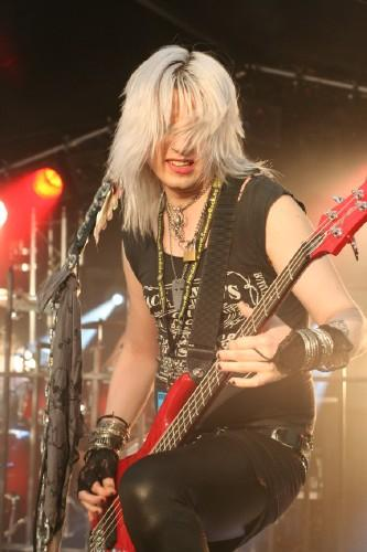 Peter London playing during a gig.